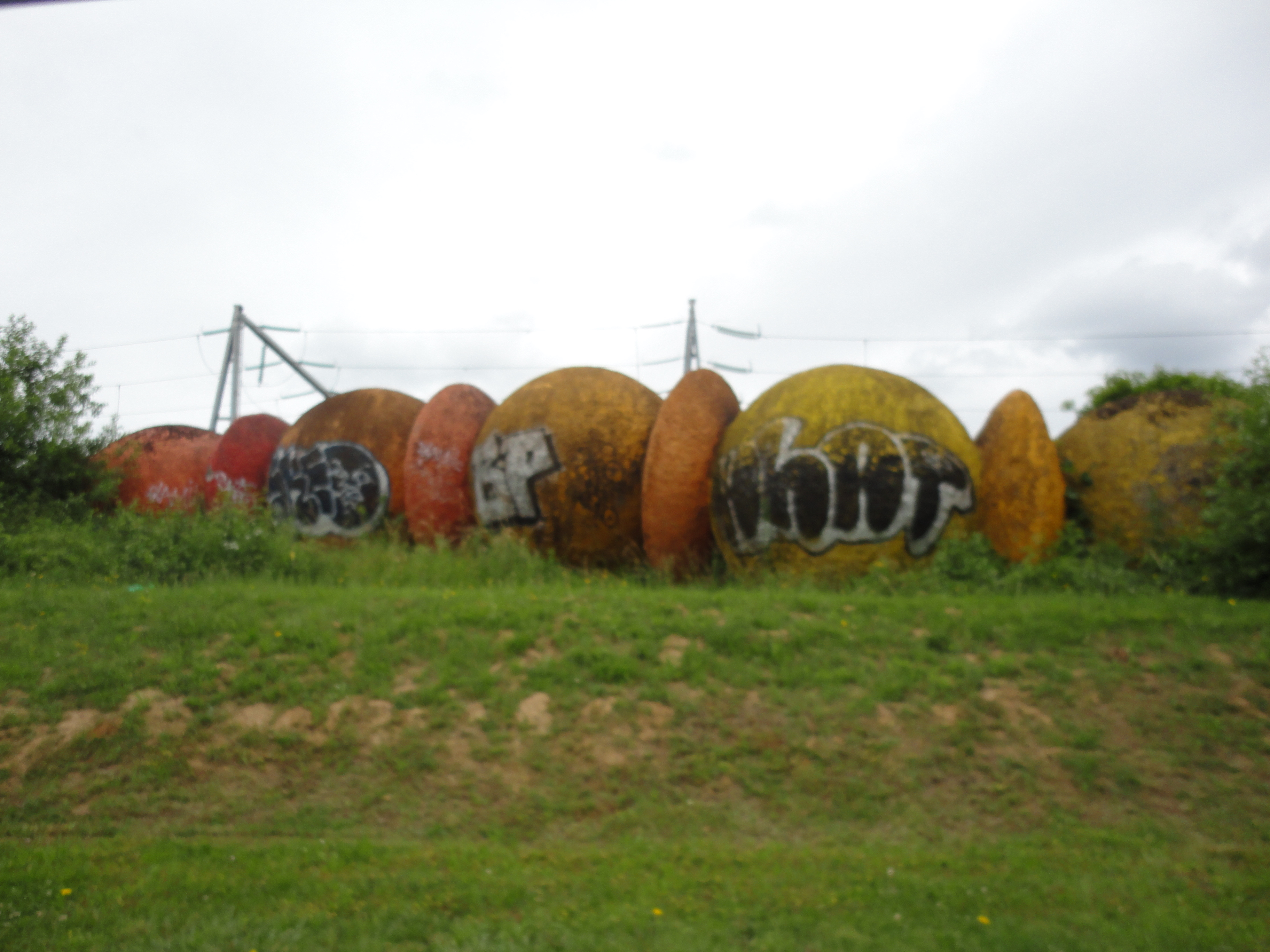 Wall balls of Torcy (France)